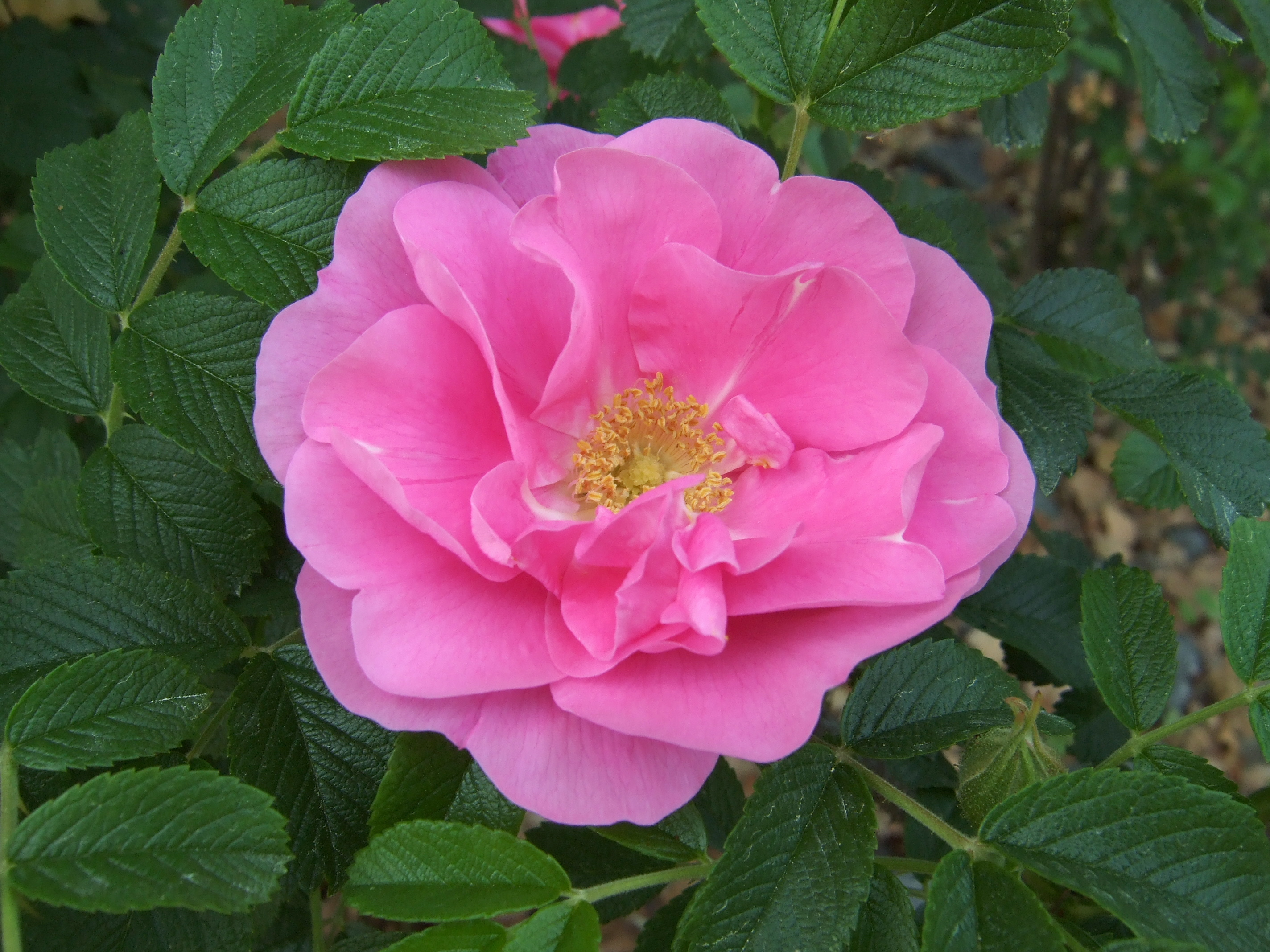 Rosa 'Jens Munk', Hamadera Park, Sakai, Osaka Prefecture, Japan